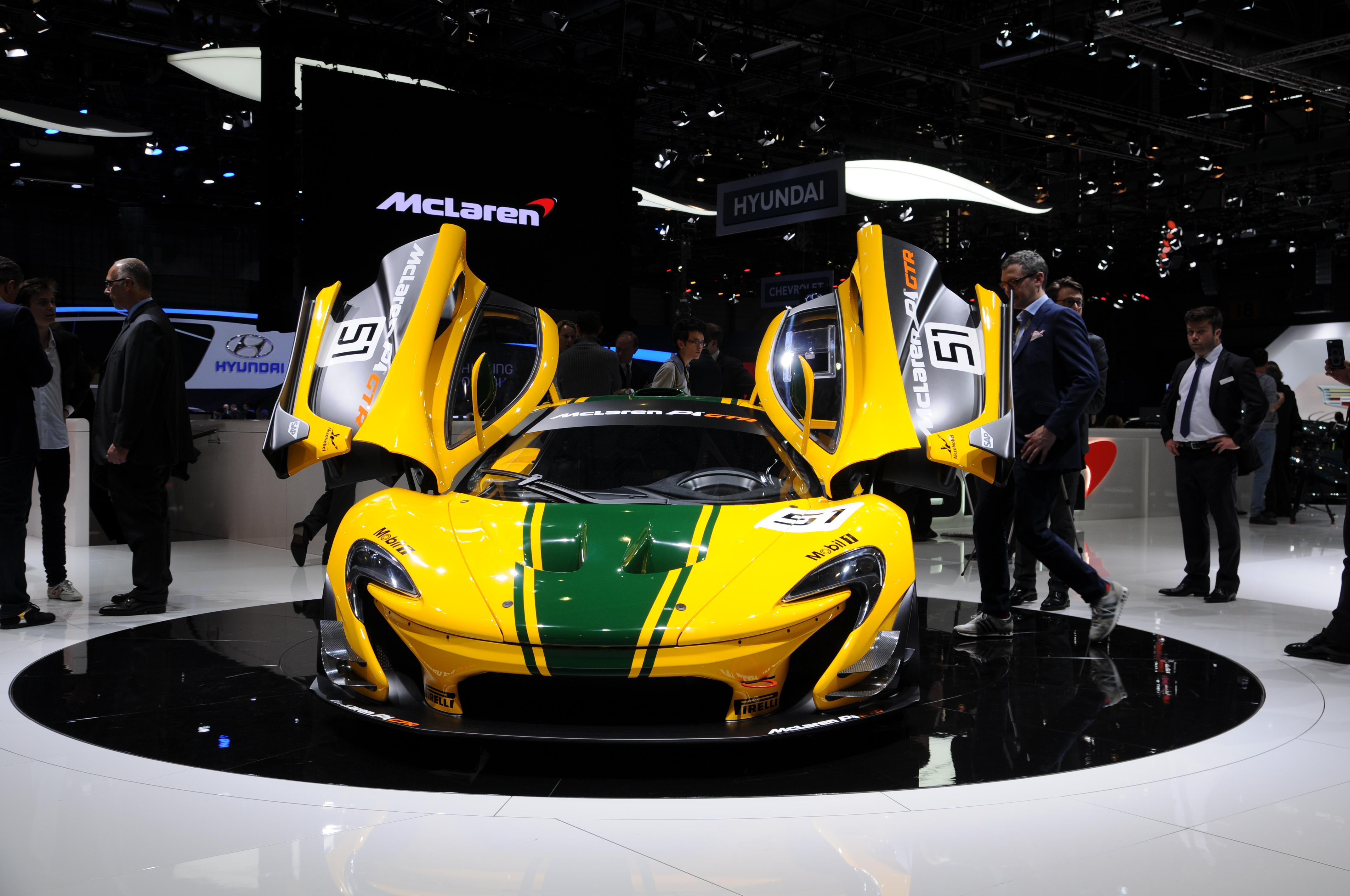 Geneva Motor Show 2015 (photo taken on the first press day)